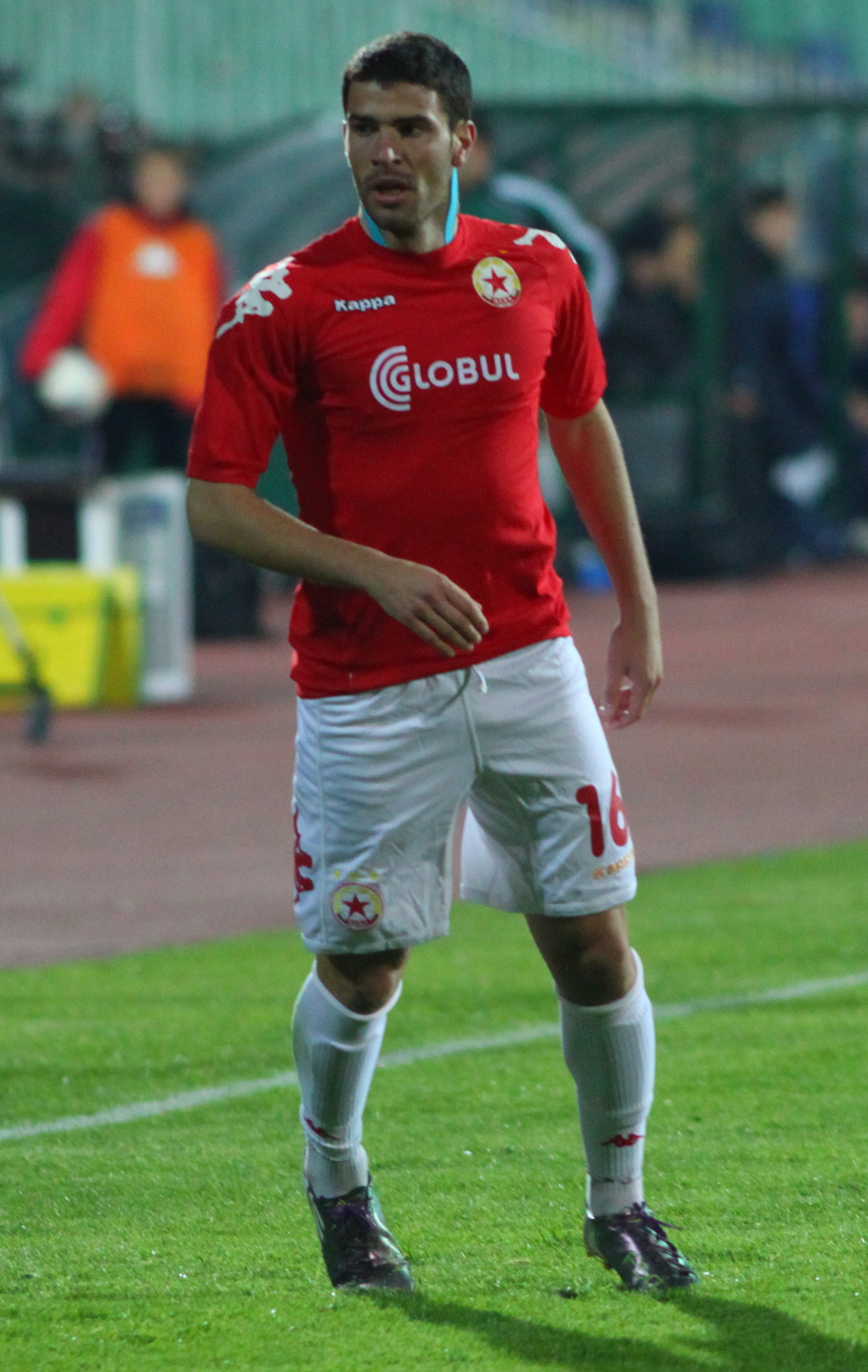 Aleksandar Yakimov (Bulgarian: Александър Якимов) (born 27 April 1989) is a Bulgarian footballer, currently playing for CSKA Sofia as a midfielder.